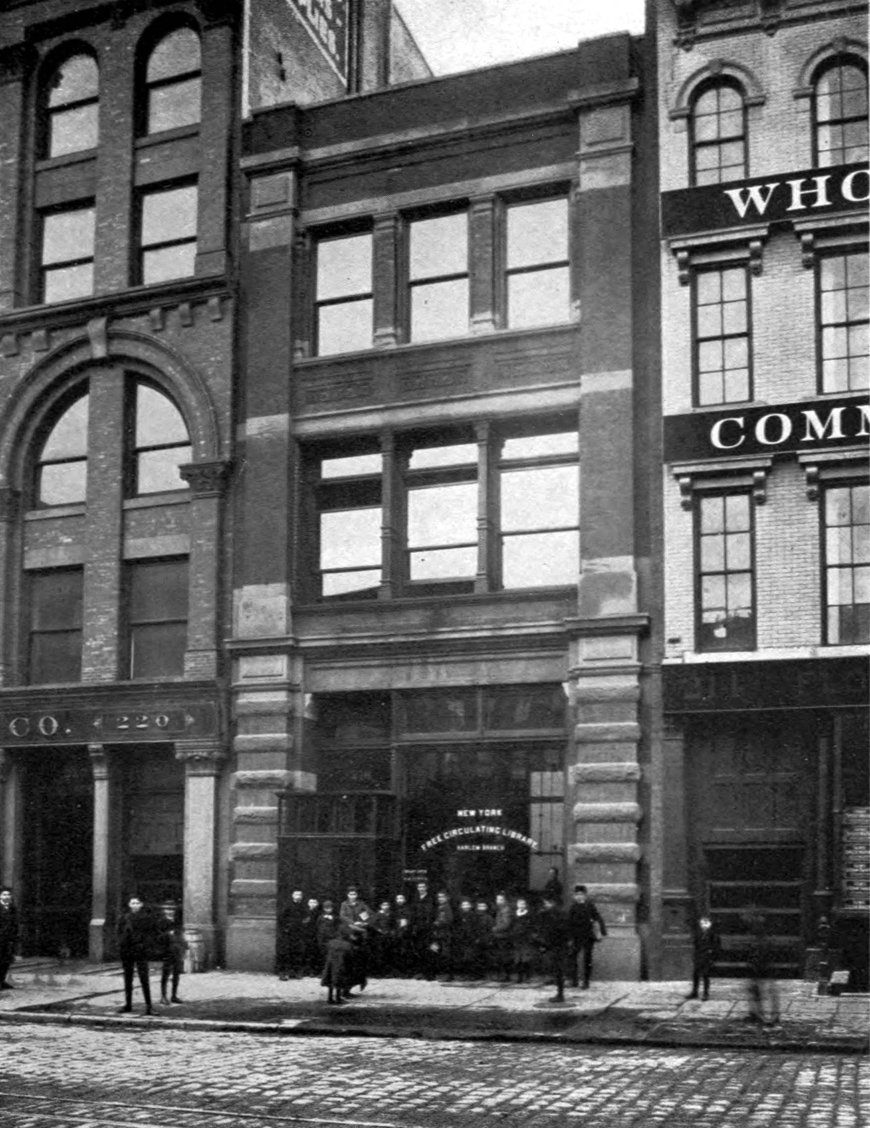 Photograph of the Harlem Branch of the New York Free Circulating Library.